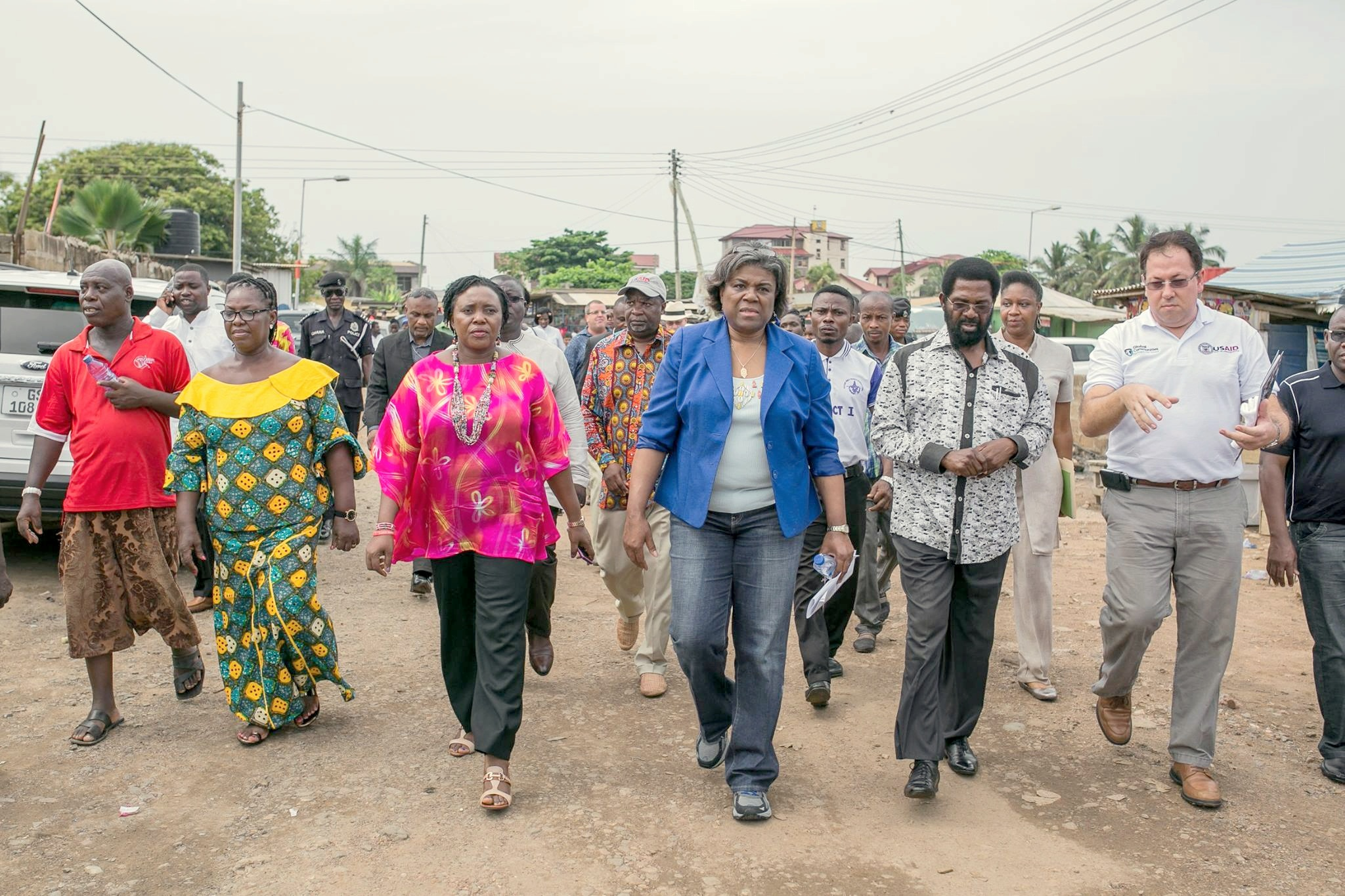 Visit of the Assistant-Secretary of State for African Affairs, Linda Thomas-Greenfield (front line, center, with blue blazer) in Labadi (La area, Greater Accra Region, Ghana) to the inspection and induction of a USAID-supported project for water, sanitation and hygiene to stop the Cholera disease in the Ghana